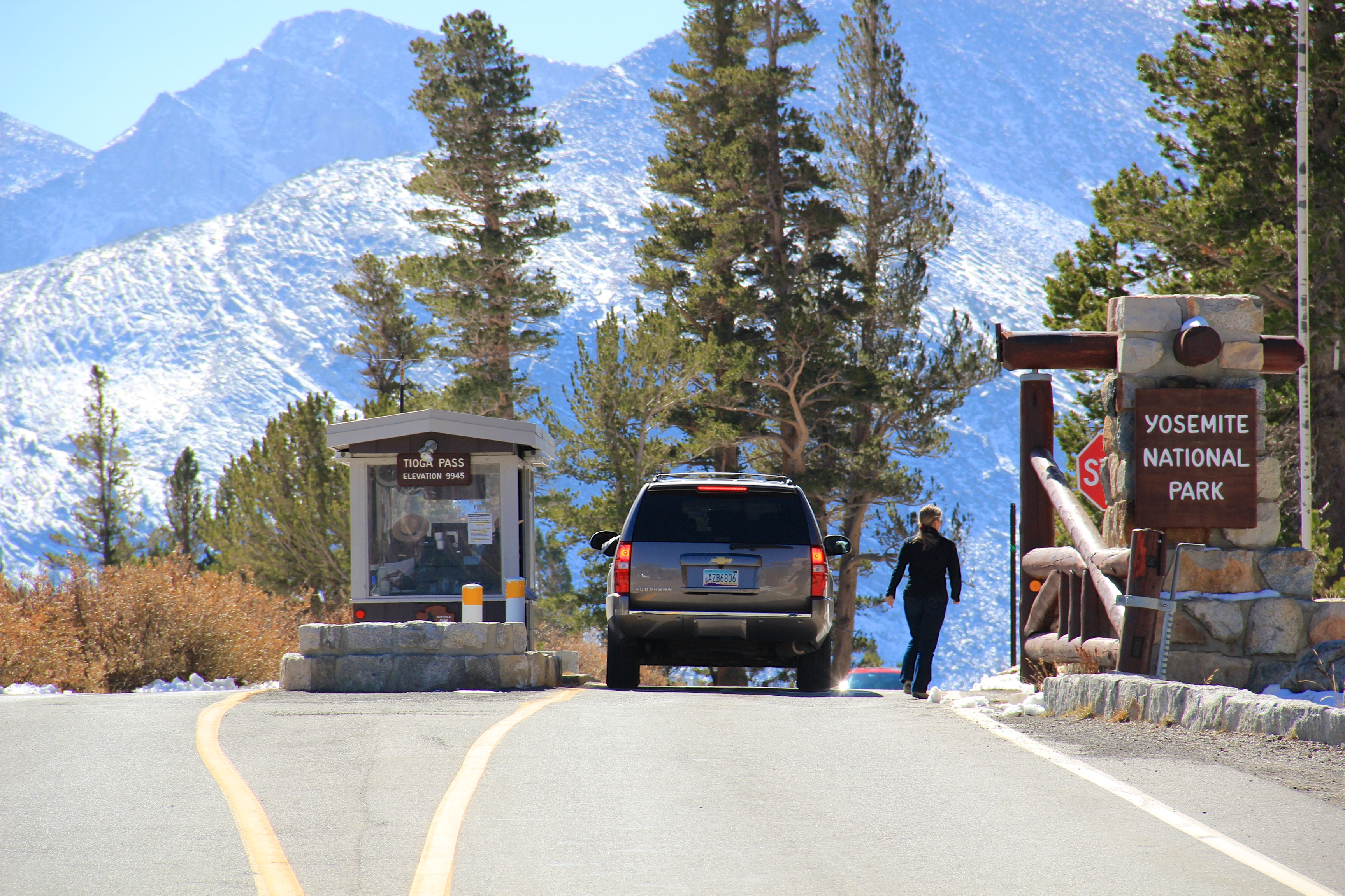 @ Yosemite National Park, California